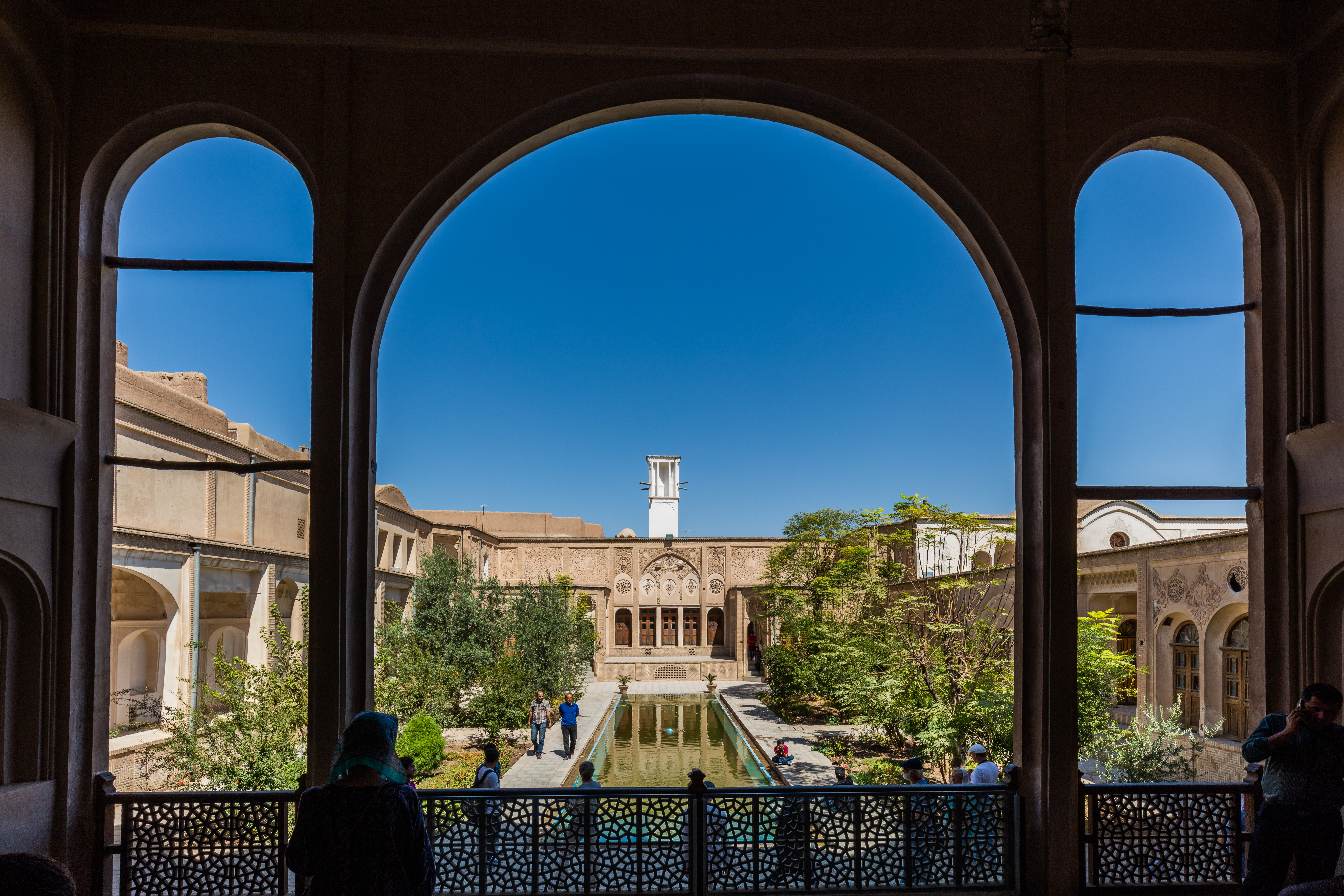 Boroujerdi Historic House, Kashan, Iran